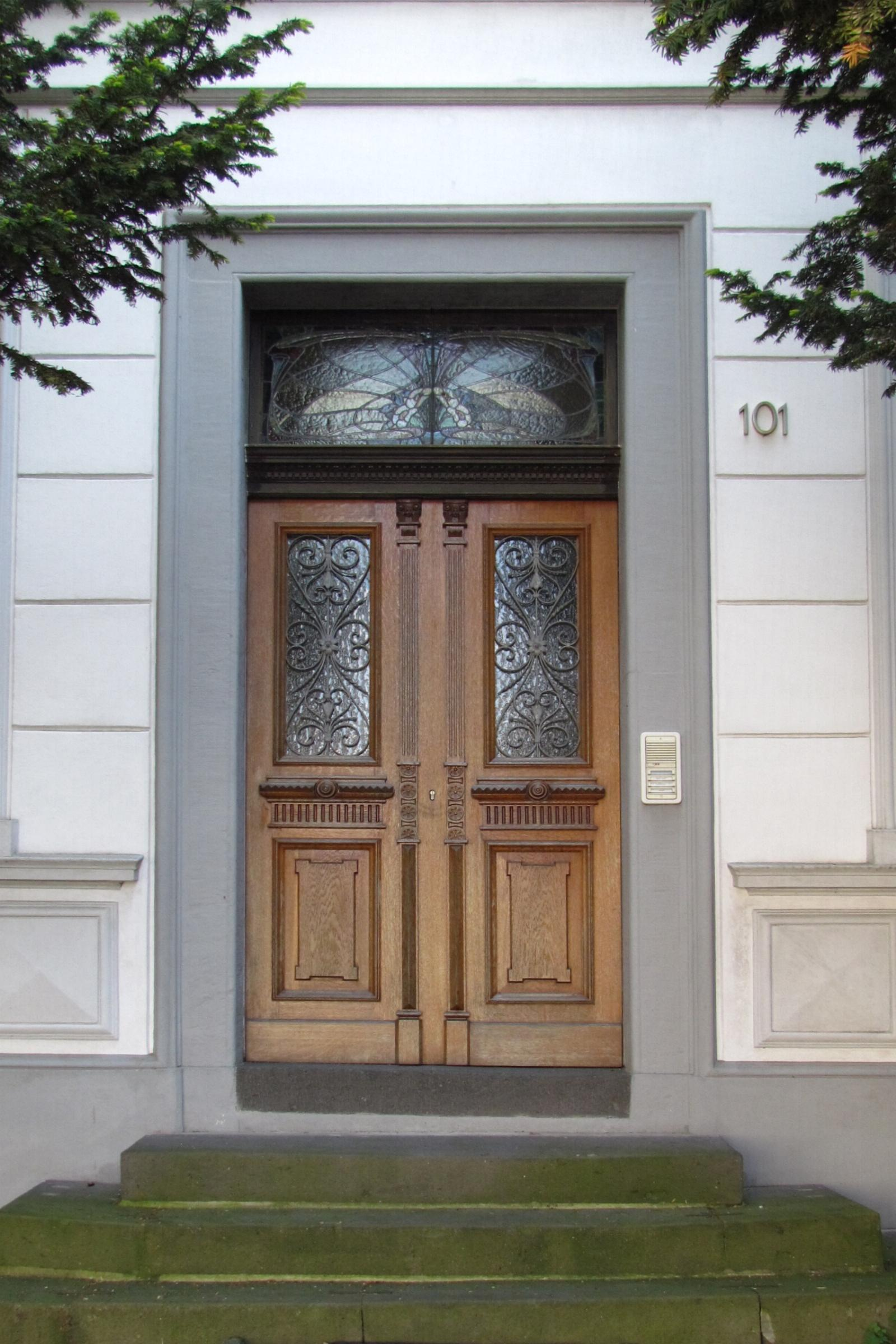 This is a photograph of an architectural monument.It is on the list of cultural monuments of Korschenbroich